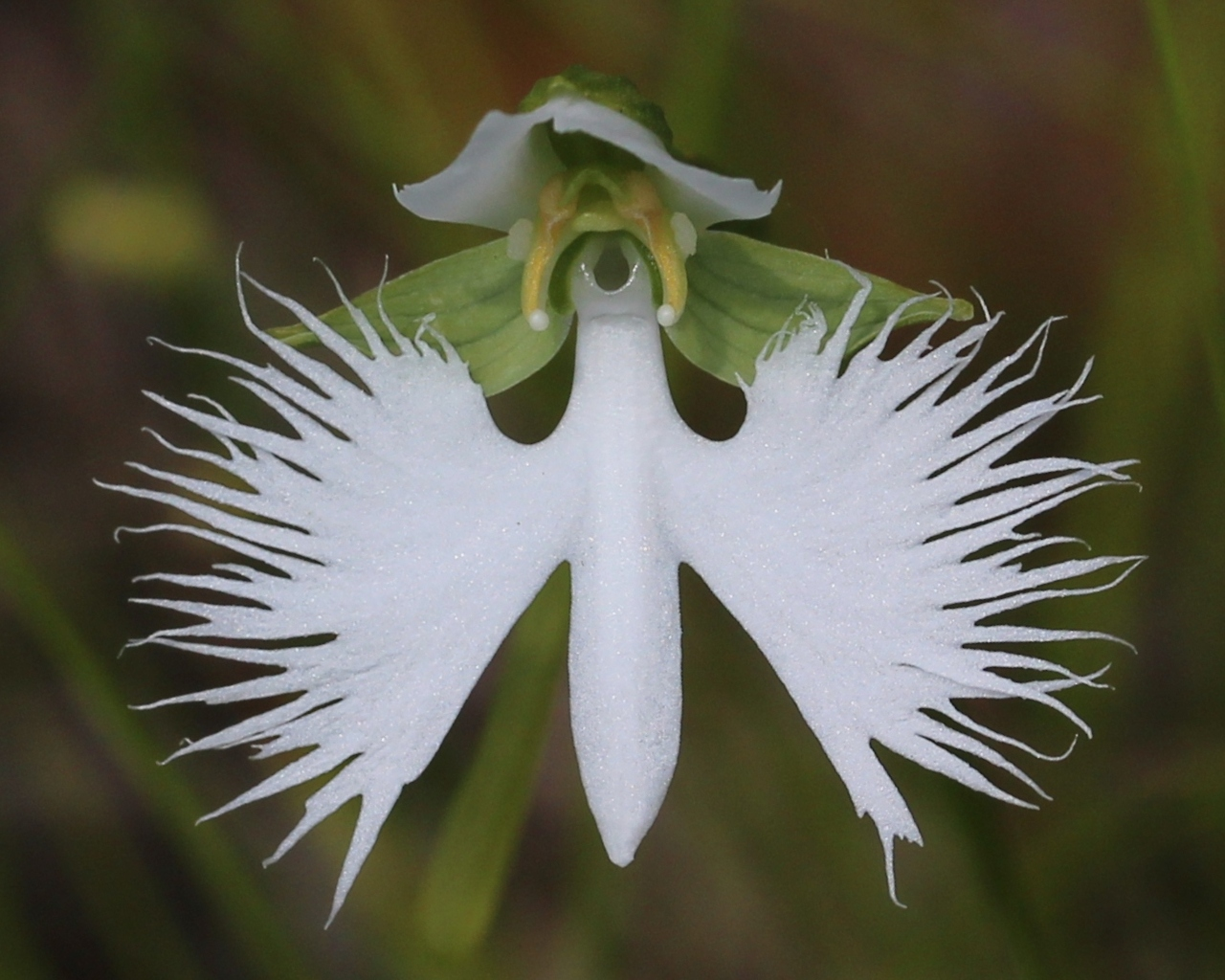 Habenaria radiata, flower in Japan